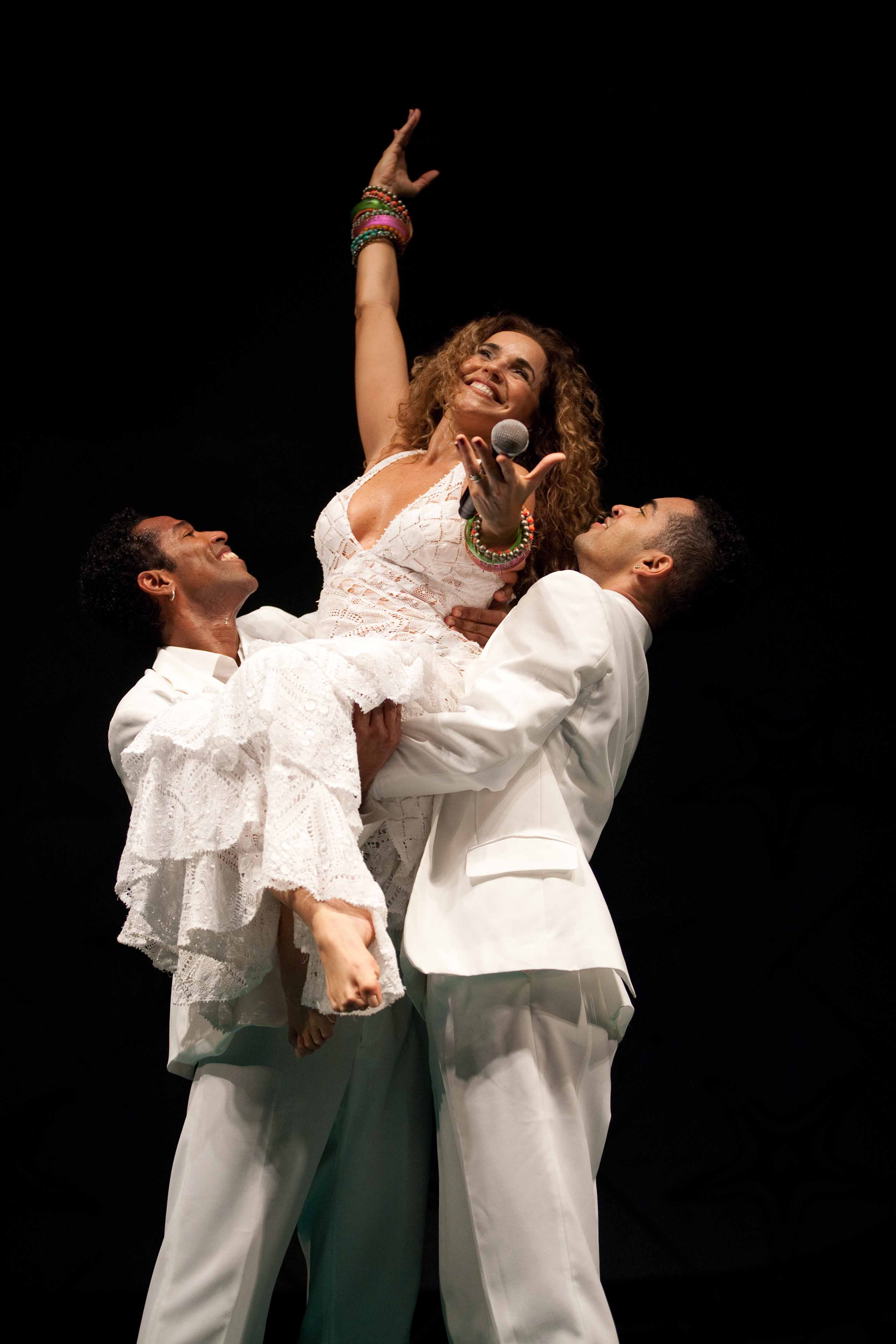 Daniela Mercury in celebration of 35th anniversary of independence Cape Verde.